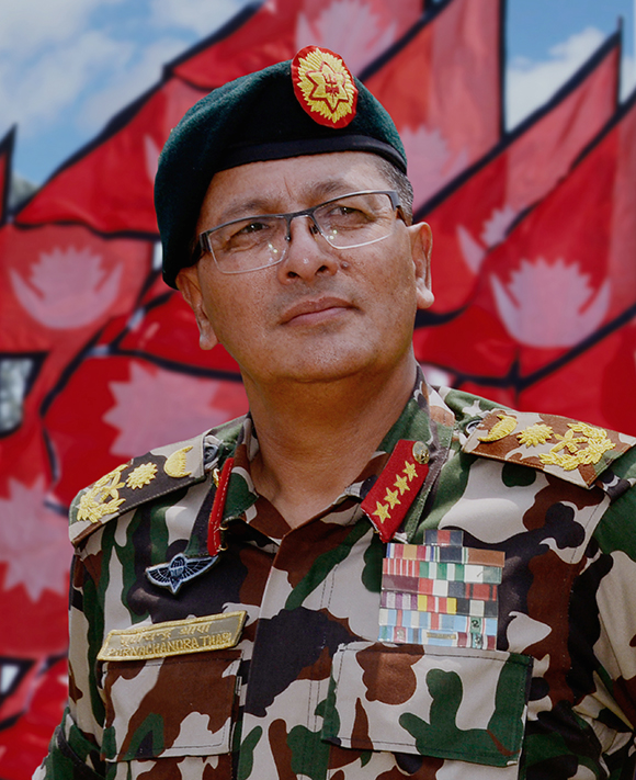 Photo requested